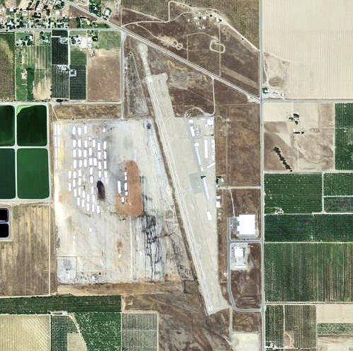 USGS digital orthophoto of Haigh Field, an airport in California, United States